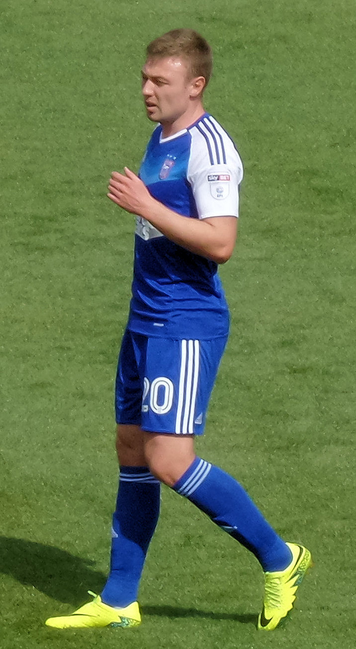 Freddie Sears playing for Ipswich Town at Brentford on 13 August 2016